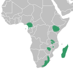 Brownleea distribution map